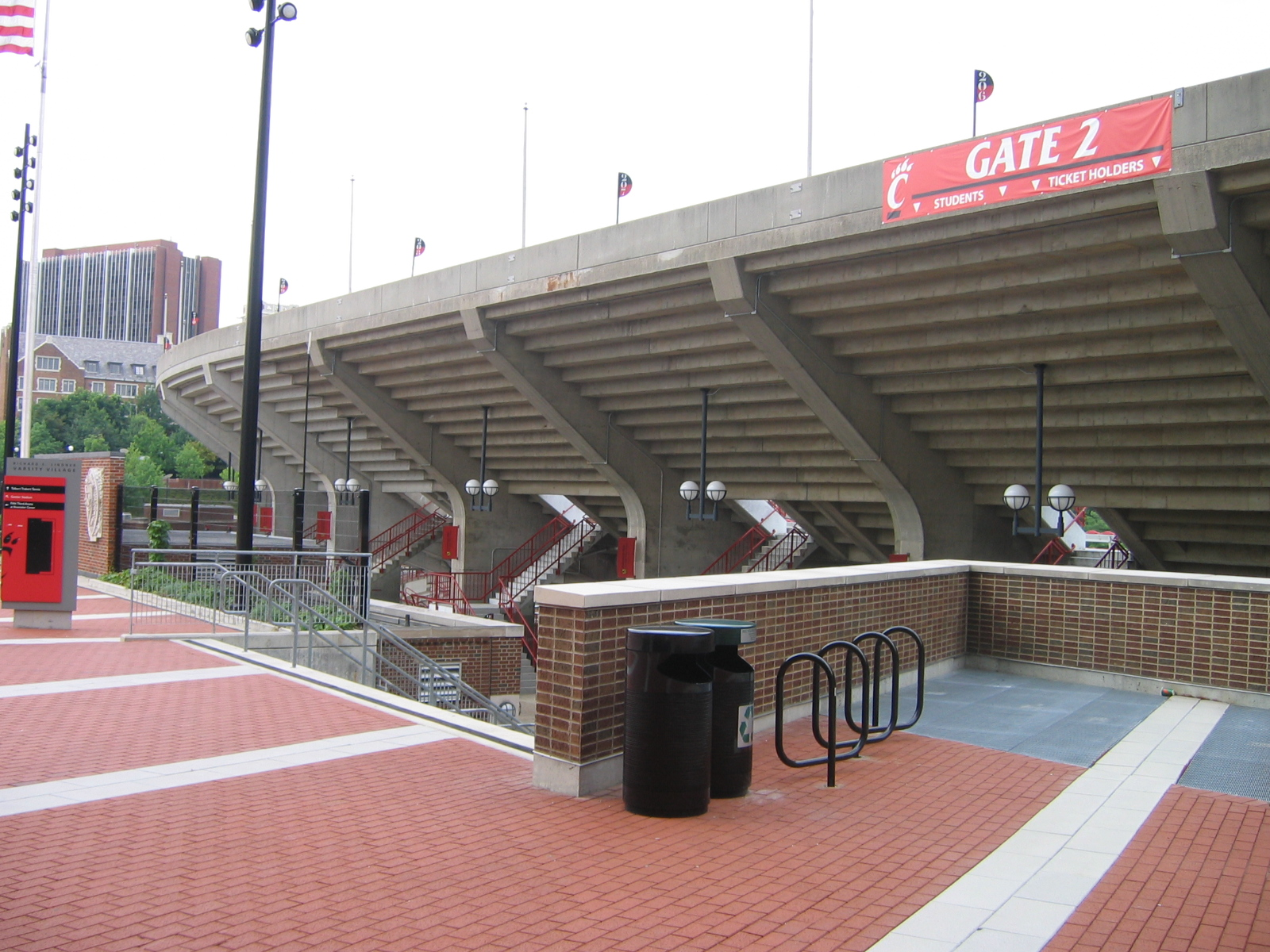 Football & Basketball Facilities U Cincinnati Football Stadium